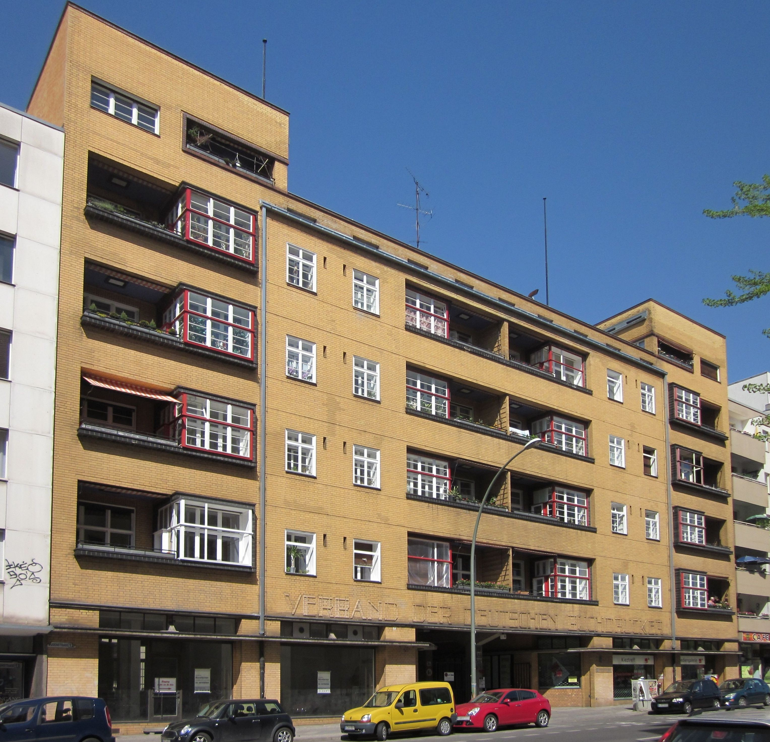 Former trade union building of the German book printers at Dudenstraße No. 10 in Berlin-Kreuzberg. The complex was built from 1924 to 1926 to designs by Max Taut, Franz Hoffmann, and Karl Bernhard in the New Objectivity architectural style; the interior was altered in 1951 by Max Taut. In addition to apartments and shops, the front building originally housed the offices of the trade union; a printing shop and assembly rooms were located in the rear building; there are also two smaller side wings. The complex is now owned by the trade union ver.di. It has been designated as cultural heritage monument